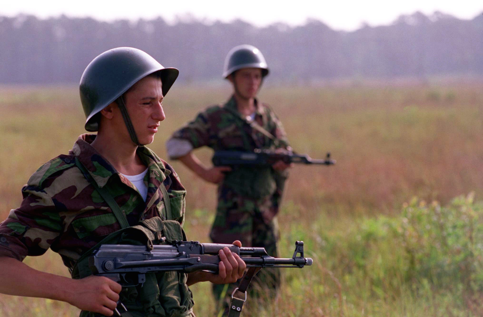 Albanian Soldiers armed with the 7.62mm AKMS assault rifle during the military exercise Operation COOPERATIVE OSPREY 96.